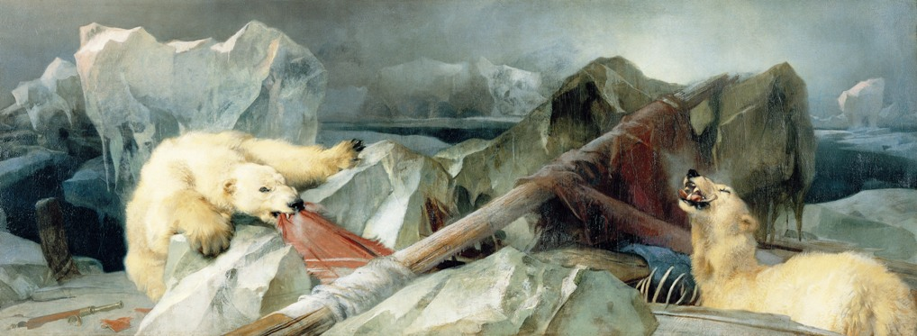 Allegedly a reference to Franklin's Lost Expedition